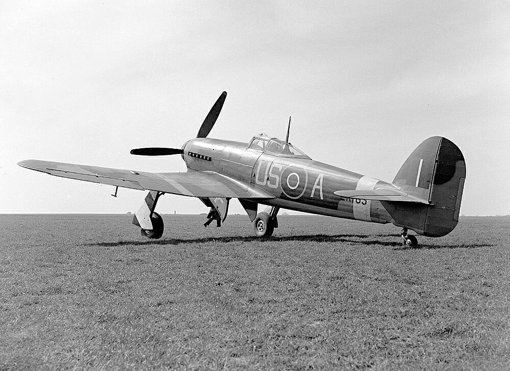 A Royal Air Force Hawker Typhoon Mk.IB (EK183, "US-A") of No. 56 Squadron RAF at RAF Matlaske, Norfolk (UK), on 21 April 1943. This aircraft was flown by Squadron Leader T.H.V Pheloung (Oamaru, New Zealand).